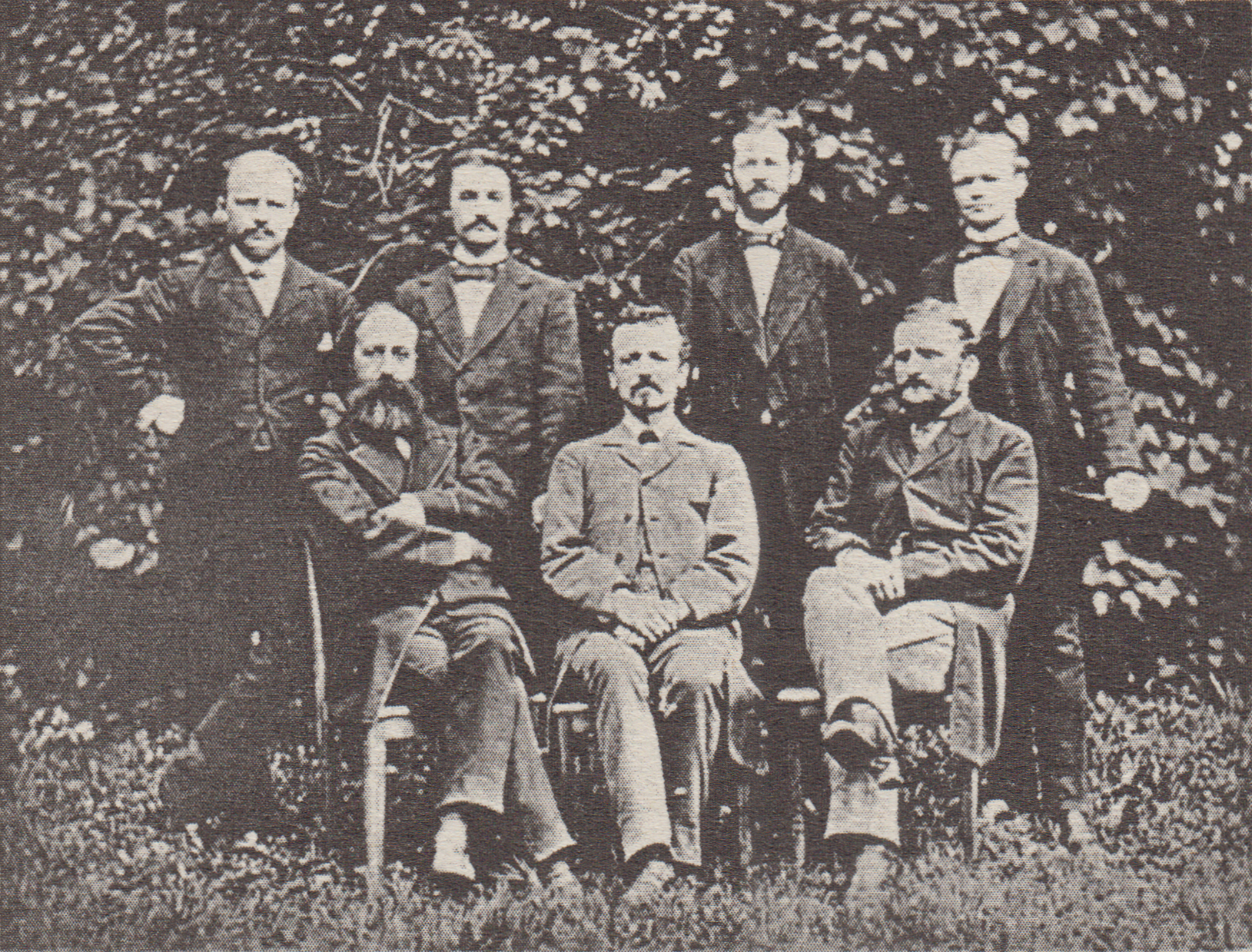 Teaching staff of the Friderico-Francisceum in 1881